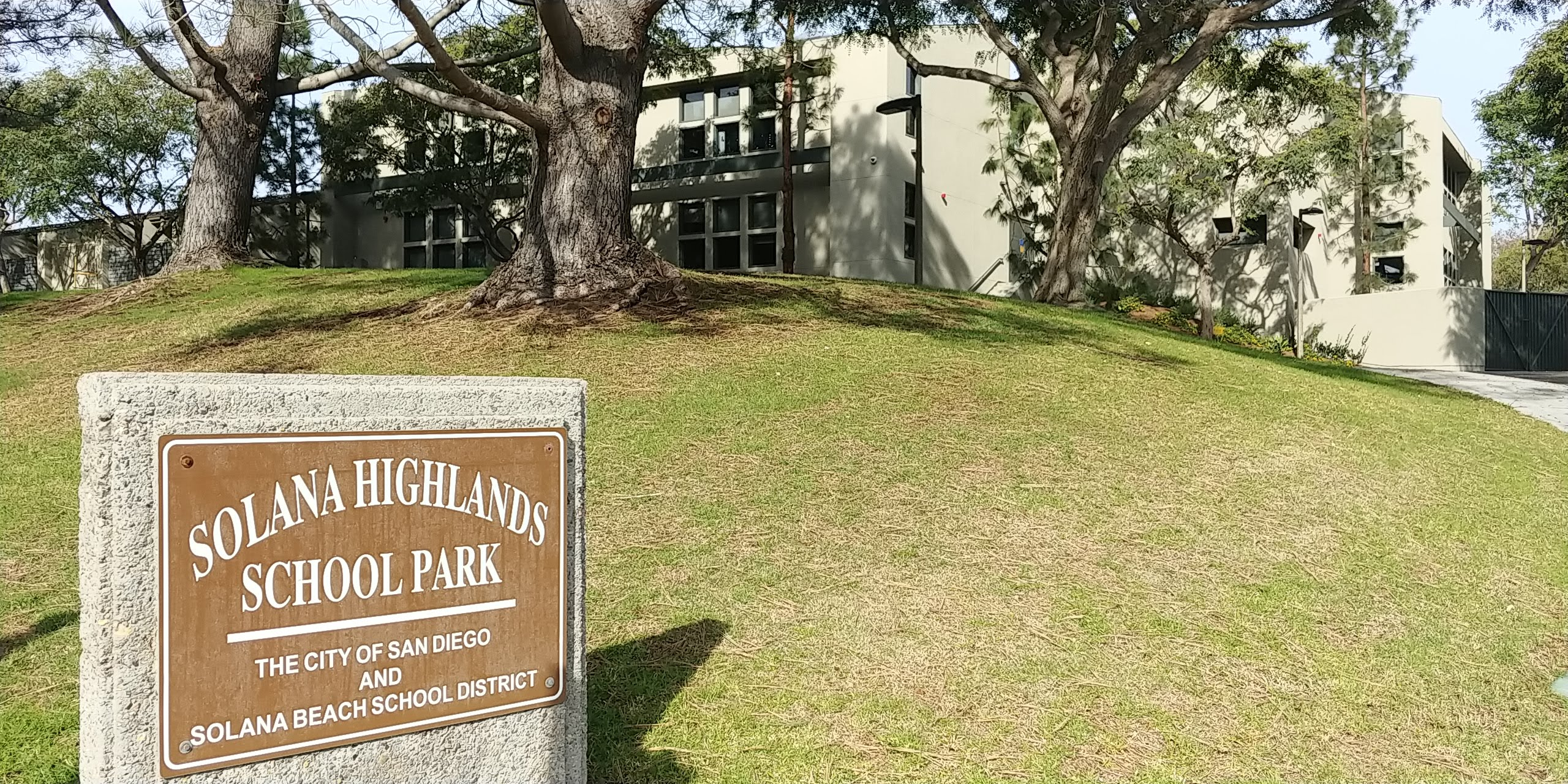 Solana Highlands School Park, San Diego, California, US.